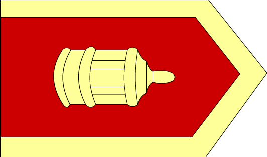 Flag of Bombardiers of the Ottoman Empire.